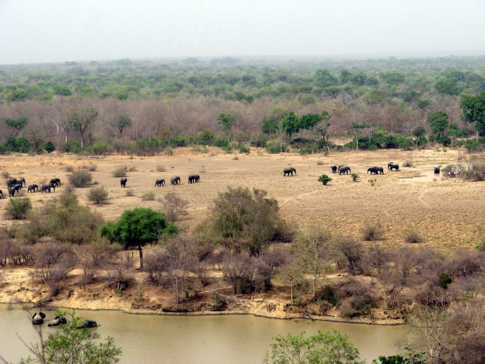 a view from the viewing platform at the mole motel